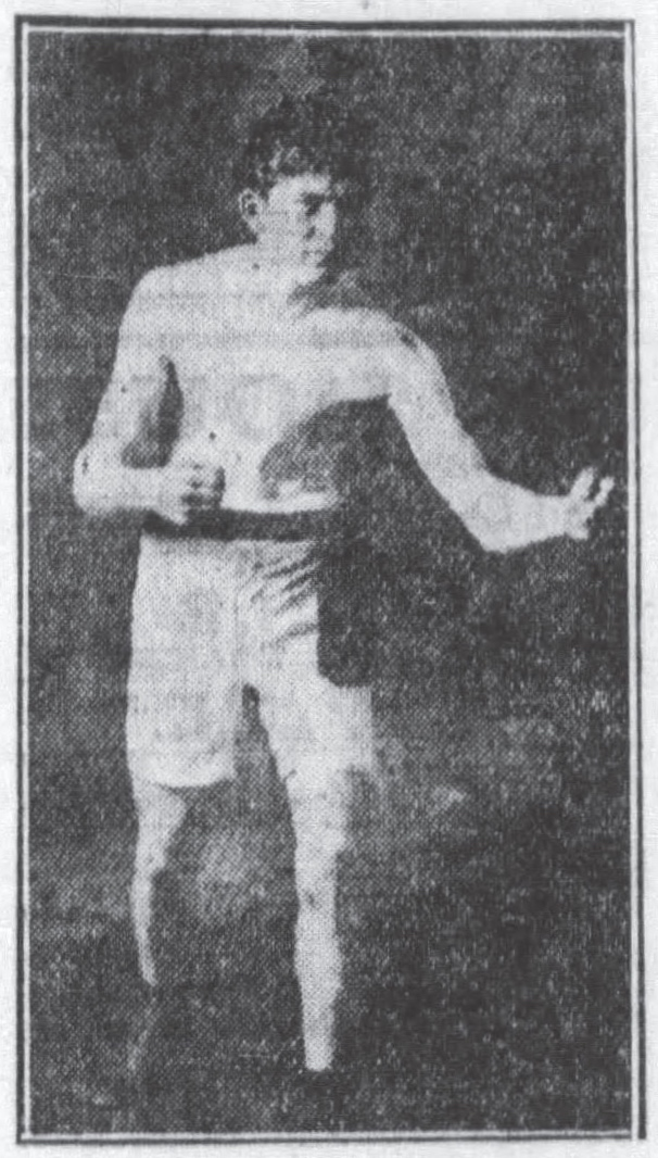 A photograph of bantamweight boxer Johnny Sweeney of Scranton, Pennsylvania